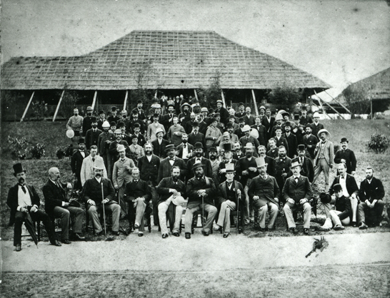 King Kalākaua (seated, center) in Hong Kong during trip around the world, 1881. King Kalakaua, in a straw hat, is seated in the center; on his left, wearing an 'astor' top hat, is John Pope Hennessy